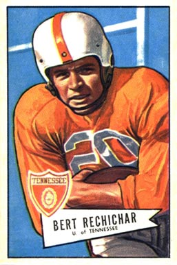 American football player Bert Rechichar on a 1952 Bowman Large card.